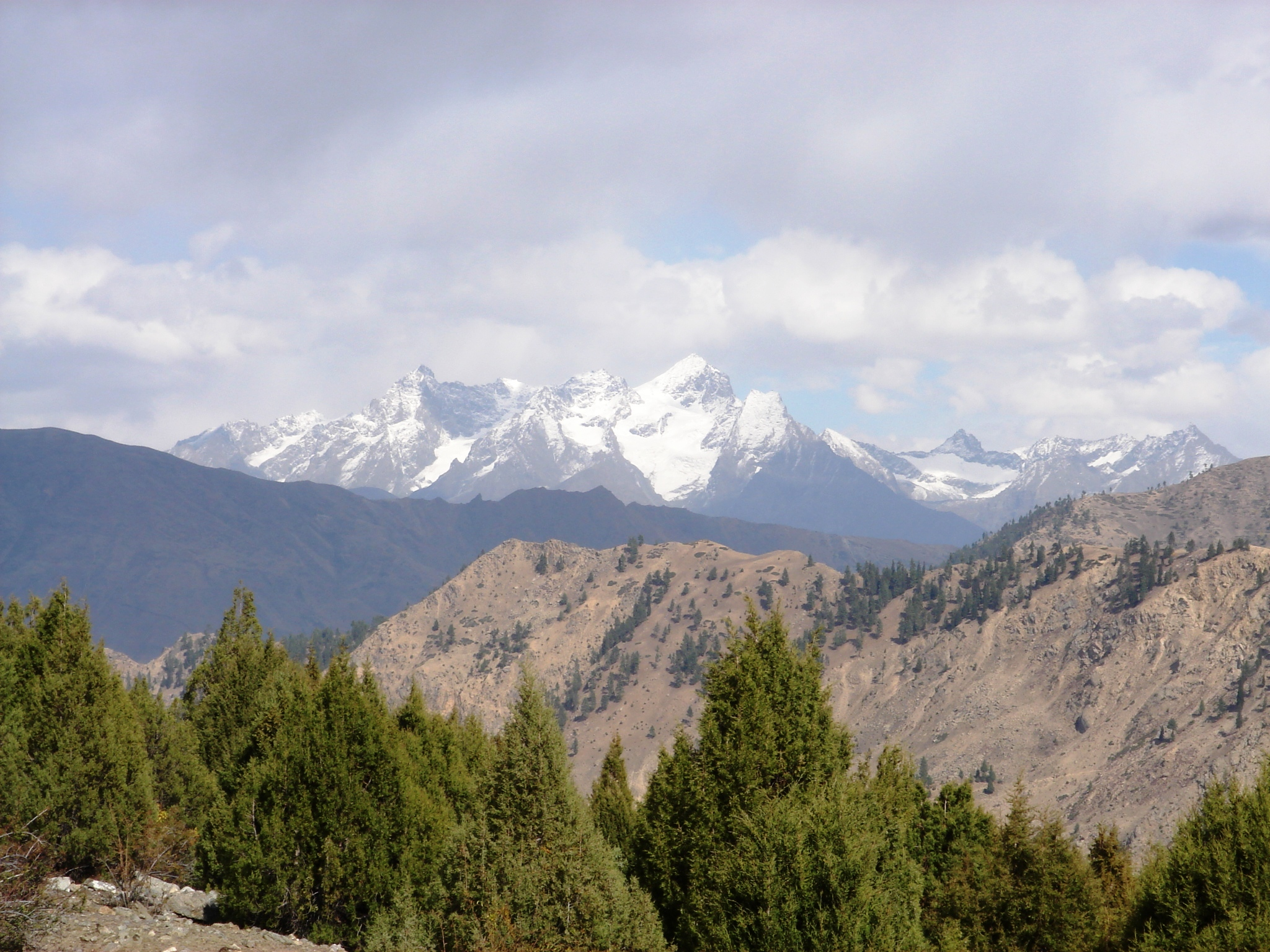 An unnamed 5,400 meter peak's jagged, snowclad towers rise above Astore. Taken above the village of Tarashing.